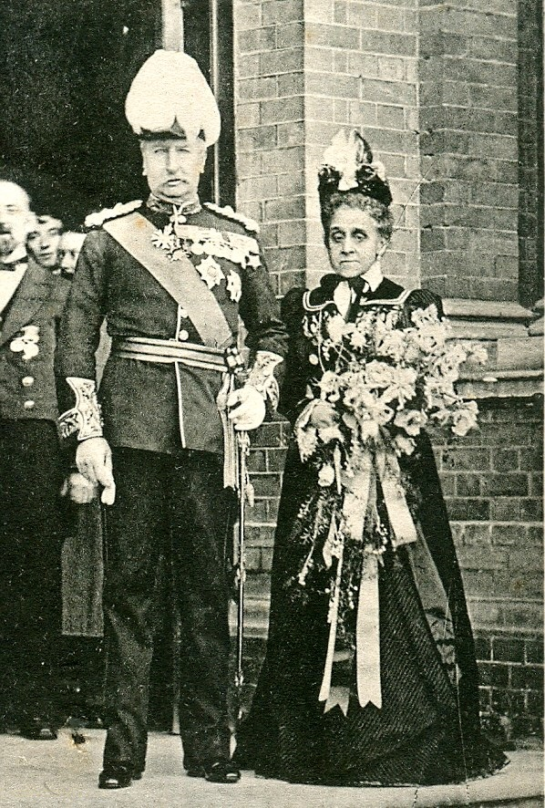 General Sir Redvers Henry Buller VC, GCB, GCMG (7 December 1839 – 2 June 1908) and his wife Lady Audrey Jane Charlotte Townshend (d. 1926), daughter of John Townshend, 4th Marquess Townshend.